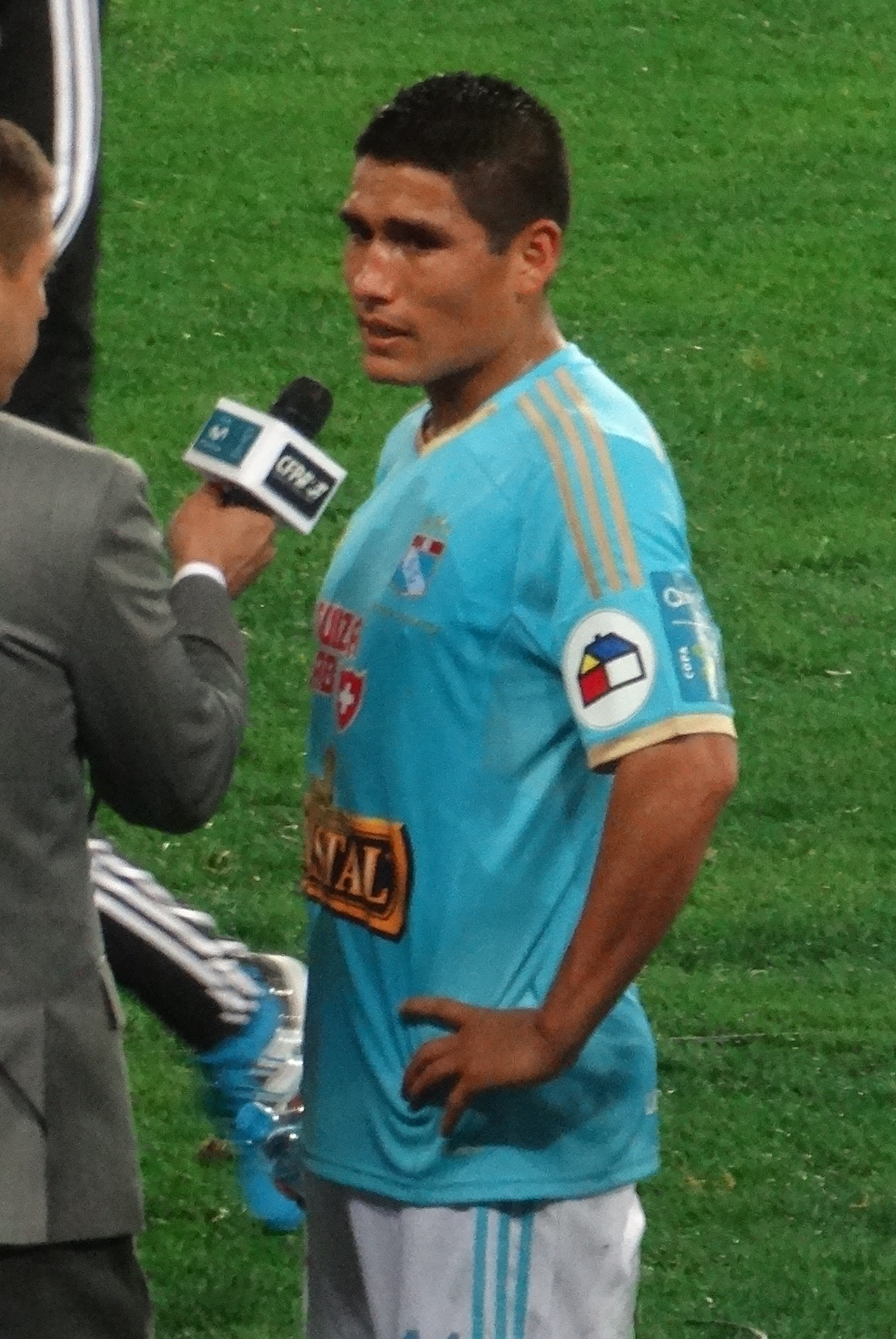 Peruvian footballer Irven Avila in 2014